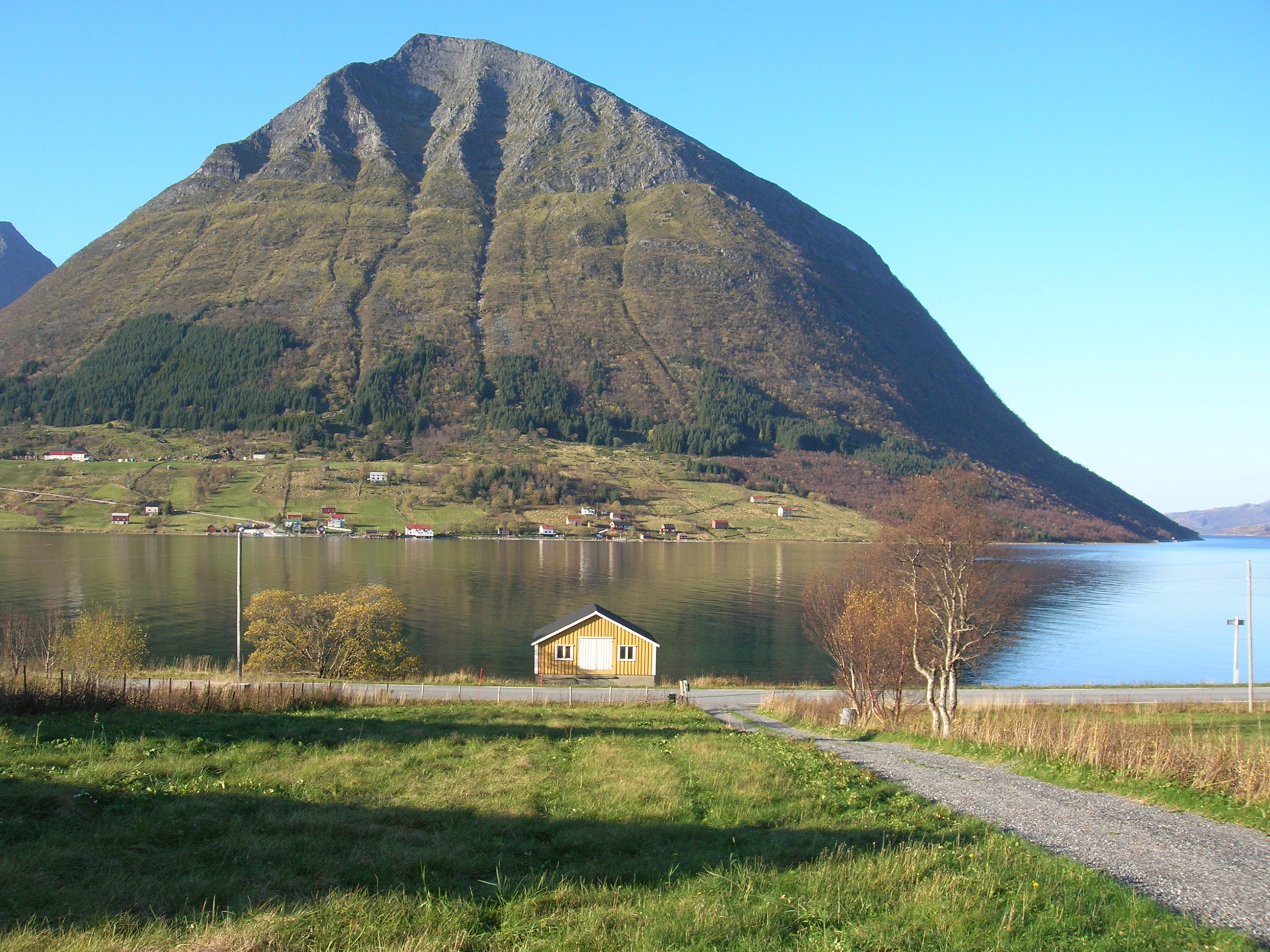 The island Aldra, seen from Aldersundet, Lurøy municipality, Nordland, Norway, Photo October 8, 2005 with a Nikon Coolpix 5600 5,1 Megapixel camera.